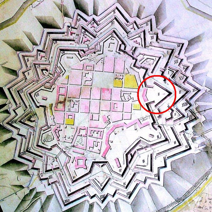 Location of Theresia Bastion of Timișoara, Romania on Habsburgic plan 1808